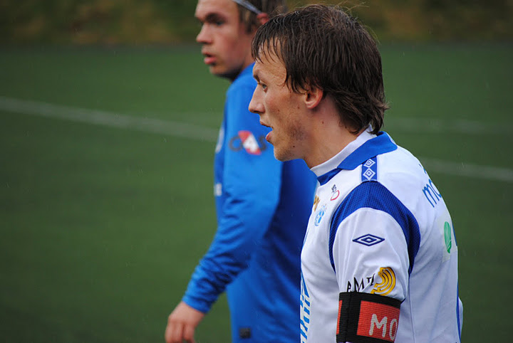 Molde FK player Mattias Moström in a cup match against Tiller, May 25, 2011.